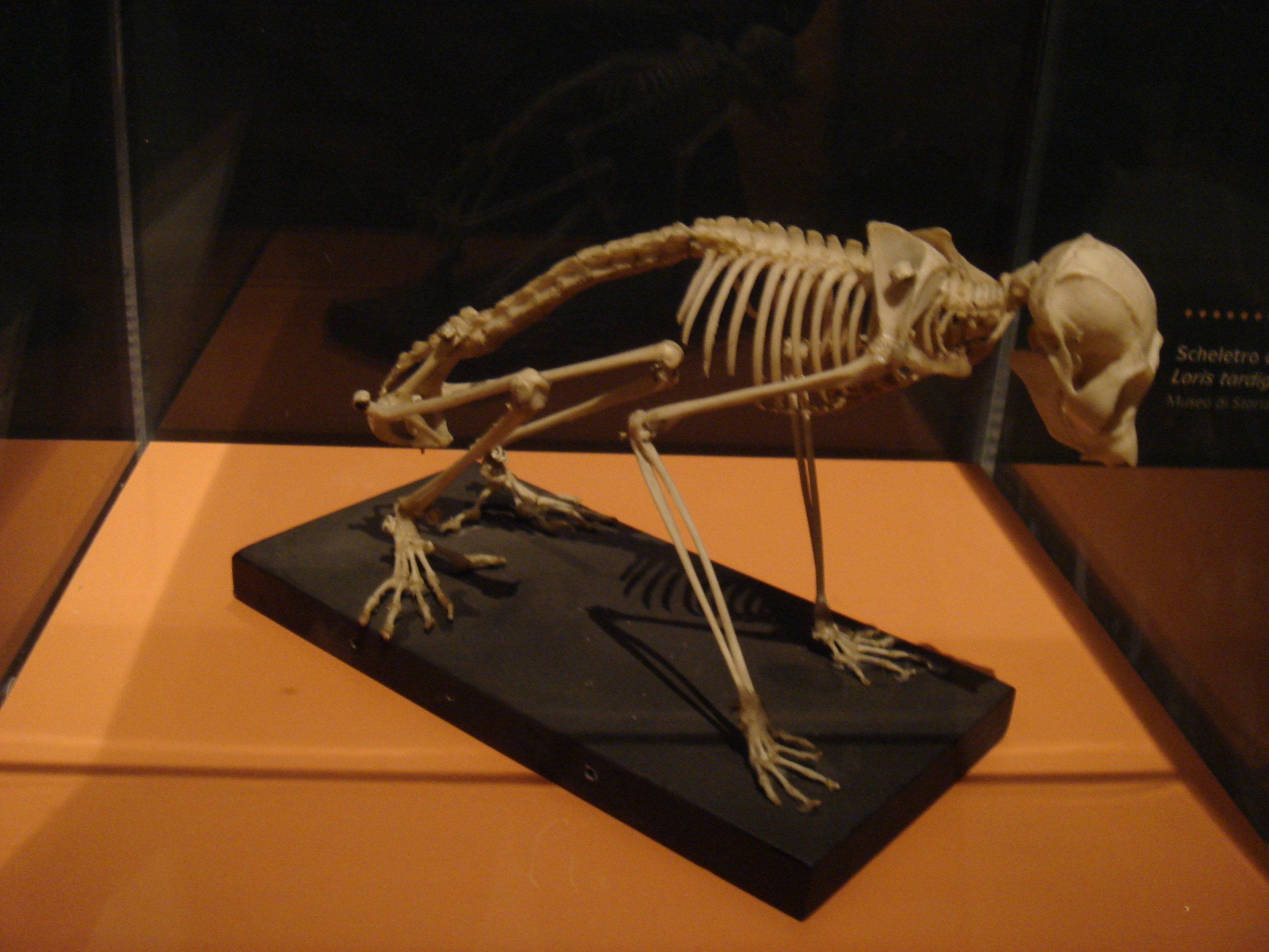 Skeleton of Loris tardigradus. .